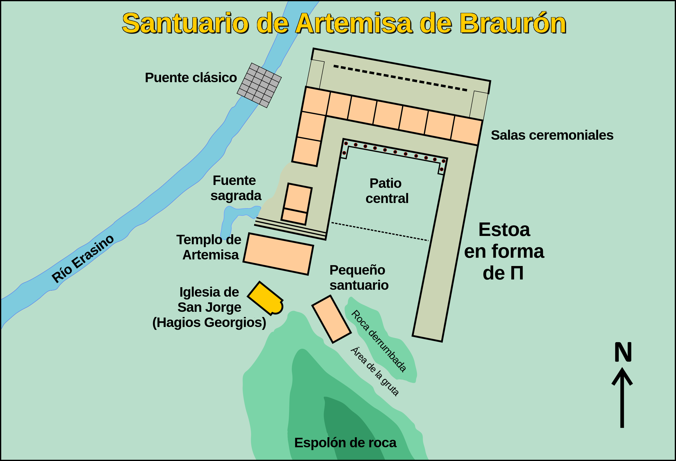 Labelled plan of the Sanctuary of Artemis in Brauron